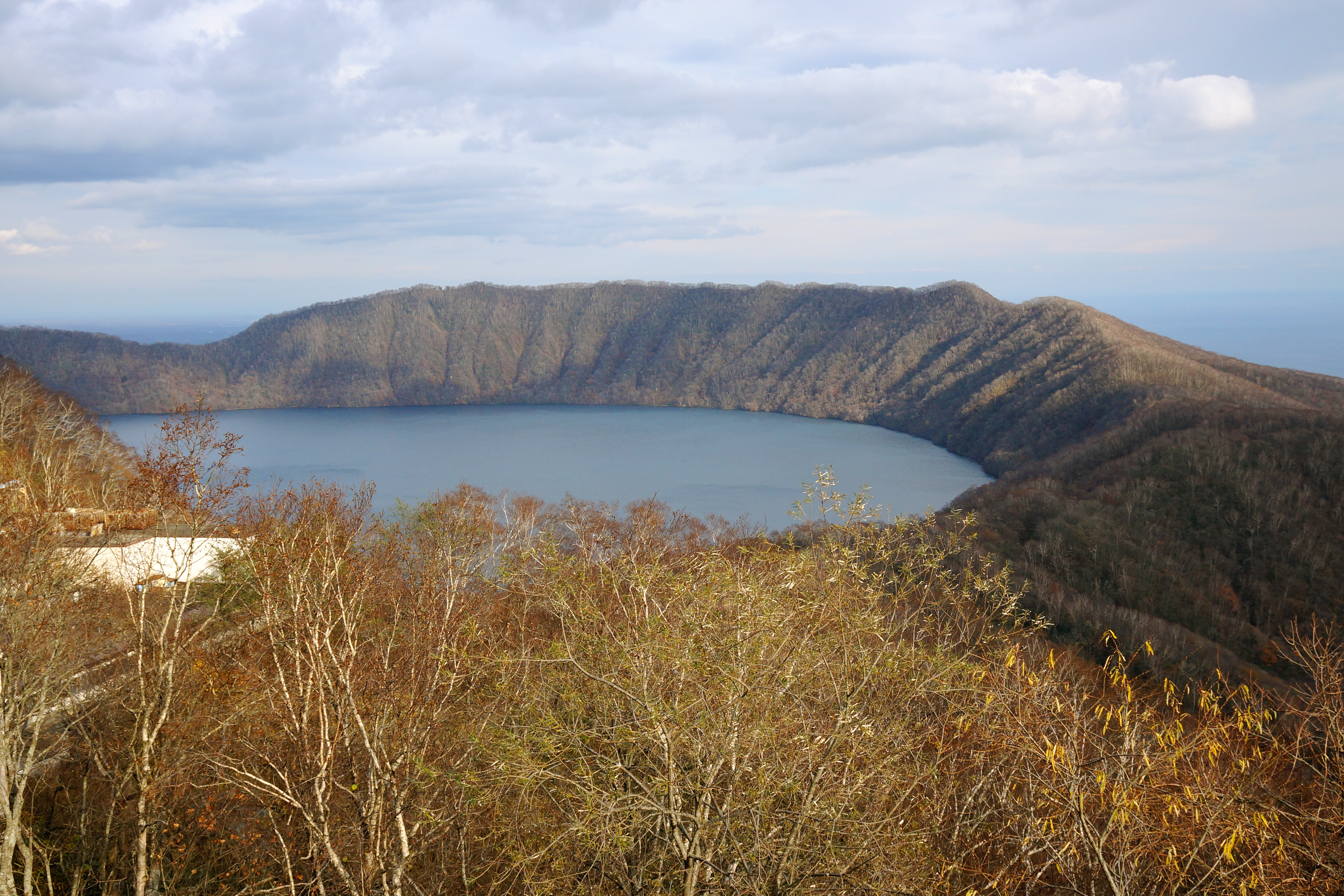 Lake Kuttara in Shiraoi, Hokkaido prefecture, Japan.